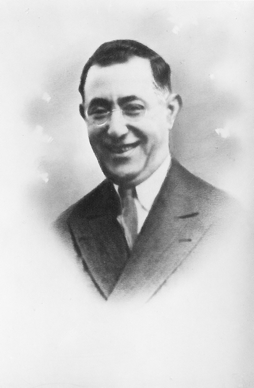 Ali-Akbar Davar